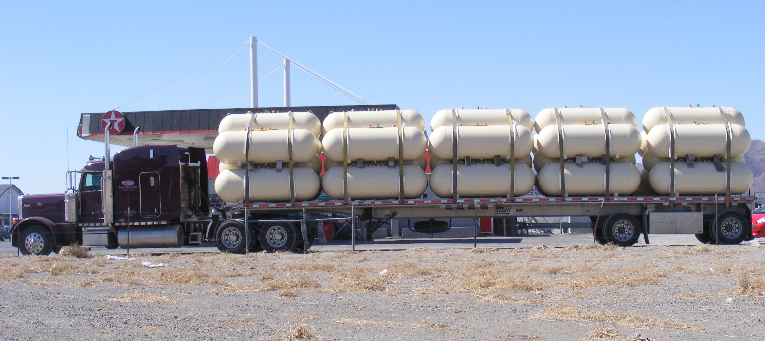 Photo of a propane-tank transport, taken at a truck stop in Nevada.